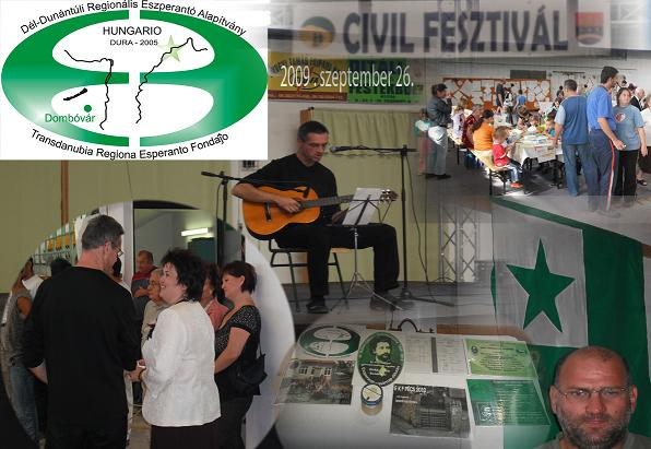 Civil Festival in Dombóvár, Hungary